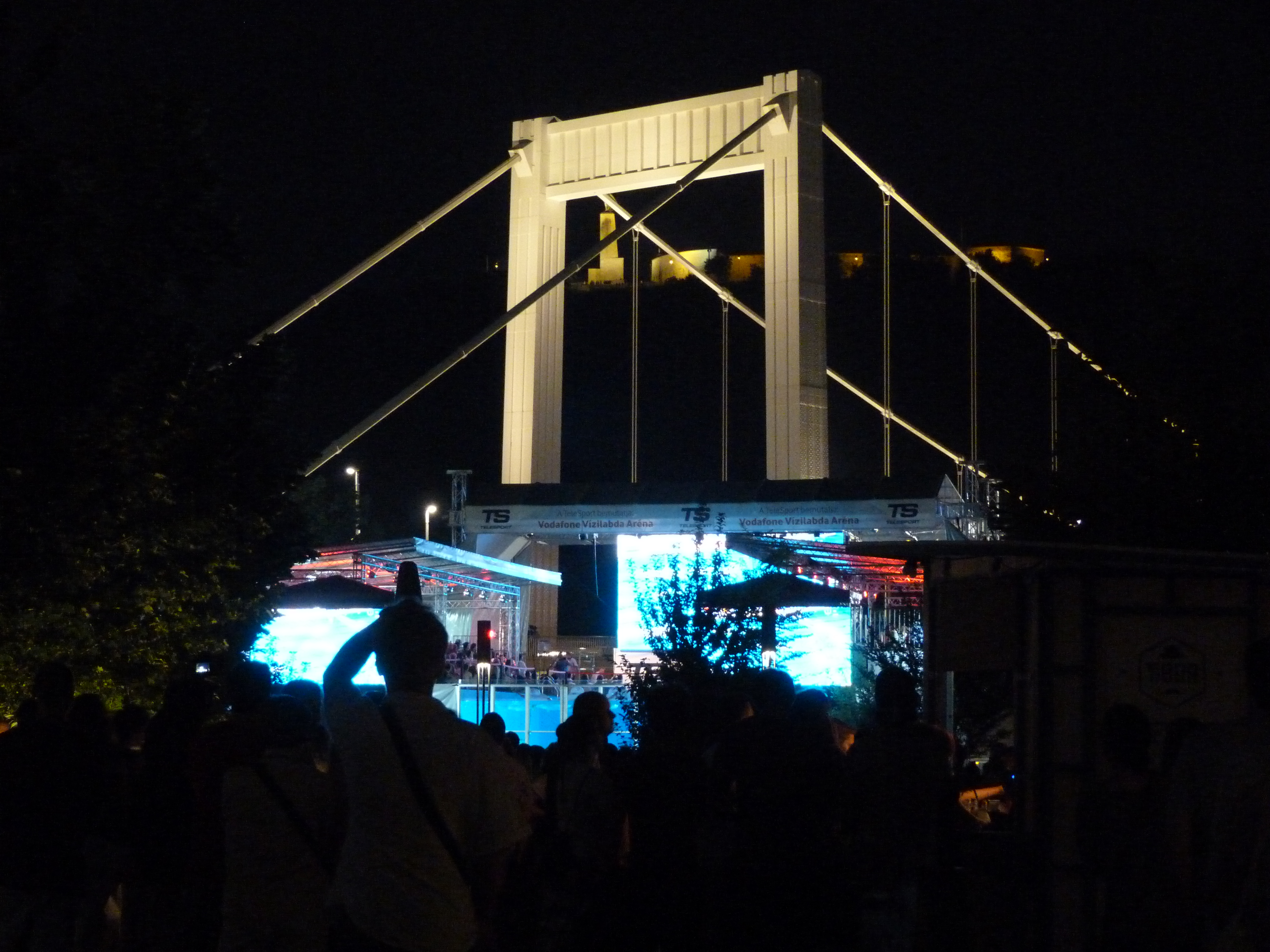 Live on the 27th of July, 2014. Budapest, Pest bridgehead of Erzsébet híd. Budapest Water Polo Euro Championship can be viewed at the Pest side of the Elisabeth Bridge (Erzsébet híd) at a free entry supporters’ camp, presented the main sponsor Vodafone Source: Supporters’ Camp at Elisabeth Bridge for Water Polo Euro Championship ©© Derzsi Elekes Andor, Budapest, 2014, You are authorised to use these photos and vids under Creative Commons – even for commercial, for profit purposes. Photos must be attributed to Derzsi Elekes Andor. All of the photos and vids in the Metapolisz DVD line are under Creative Commons and can be used even for commercial – for profit – purposes. Recommended Citation Derzsi Elekes Andor: Metapolisz DVD line